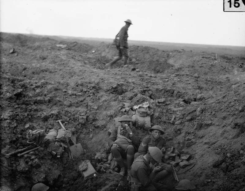 Troops of the 2nd Canterbury Battalion, New Zealand Division, rest in a shell hole, Battle of Flers-Courcelette.